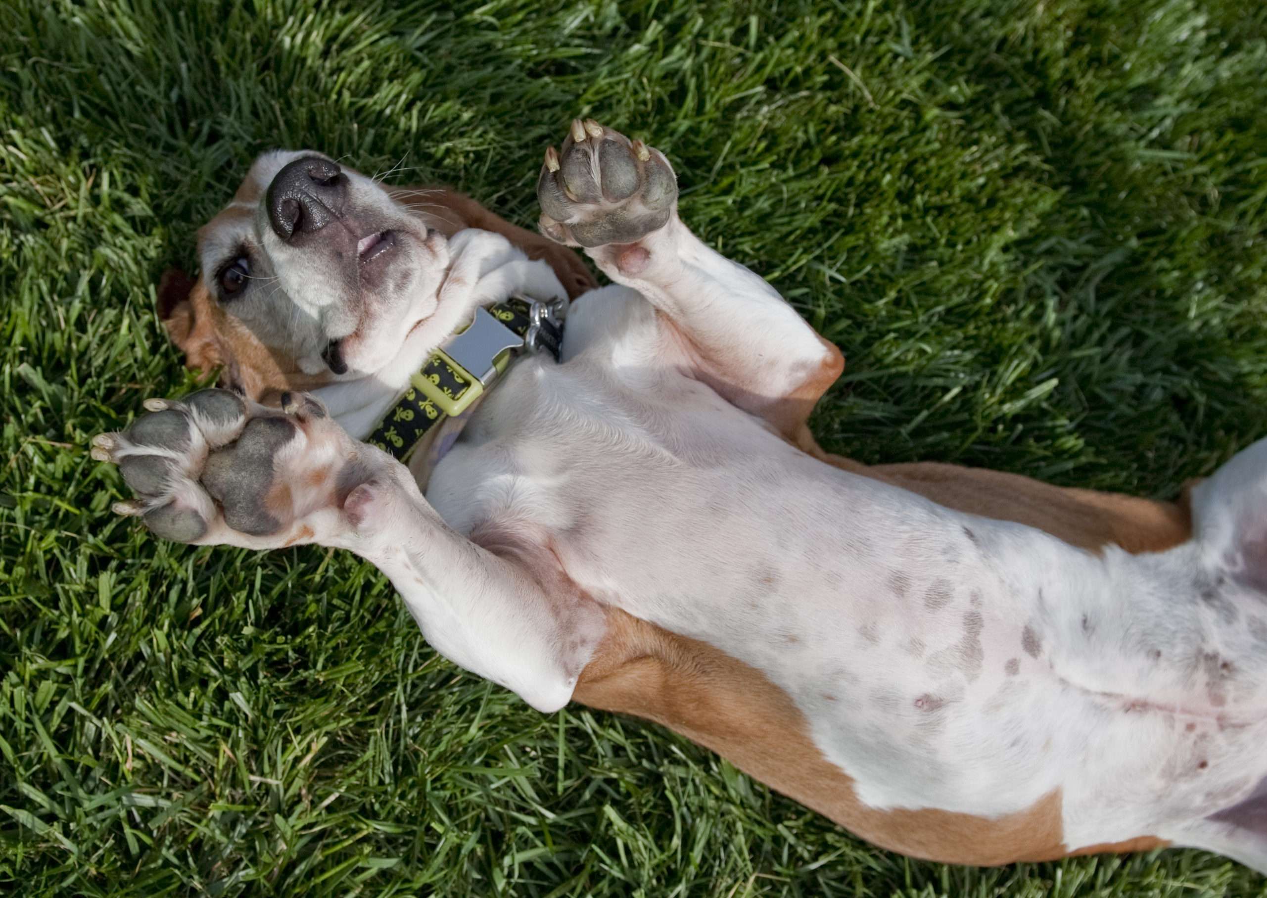 A basset hound lying on its back.